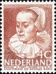 Maria Tesselschade Roemers Visscher, 1938 Dutch stamp by Engelien Reitsma-Valença